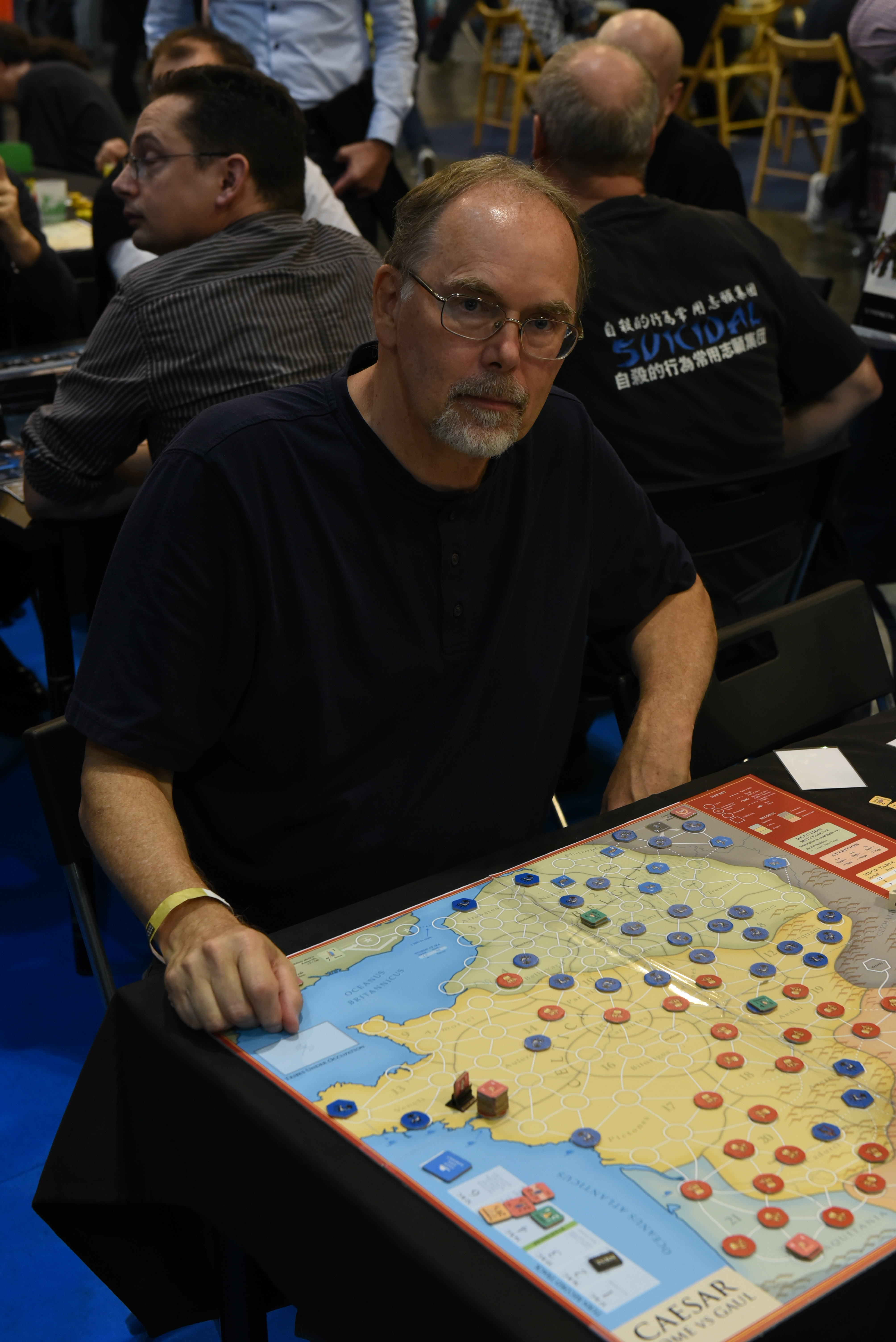 The game author Mark Simonitch at the board game fair Spiel '17 in Essen, Germany.